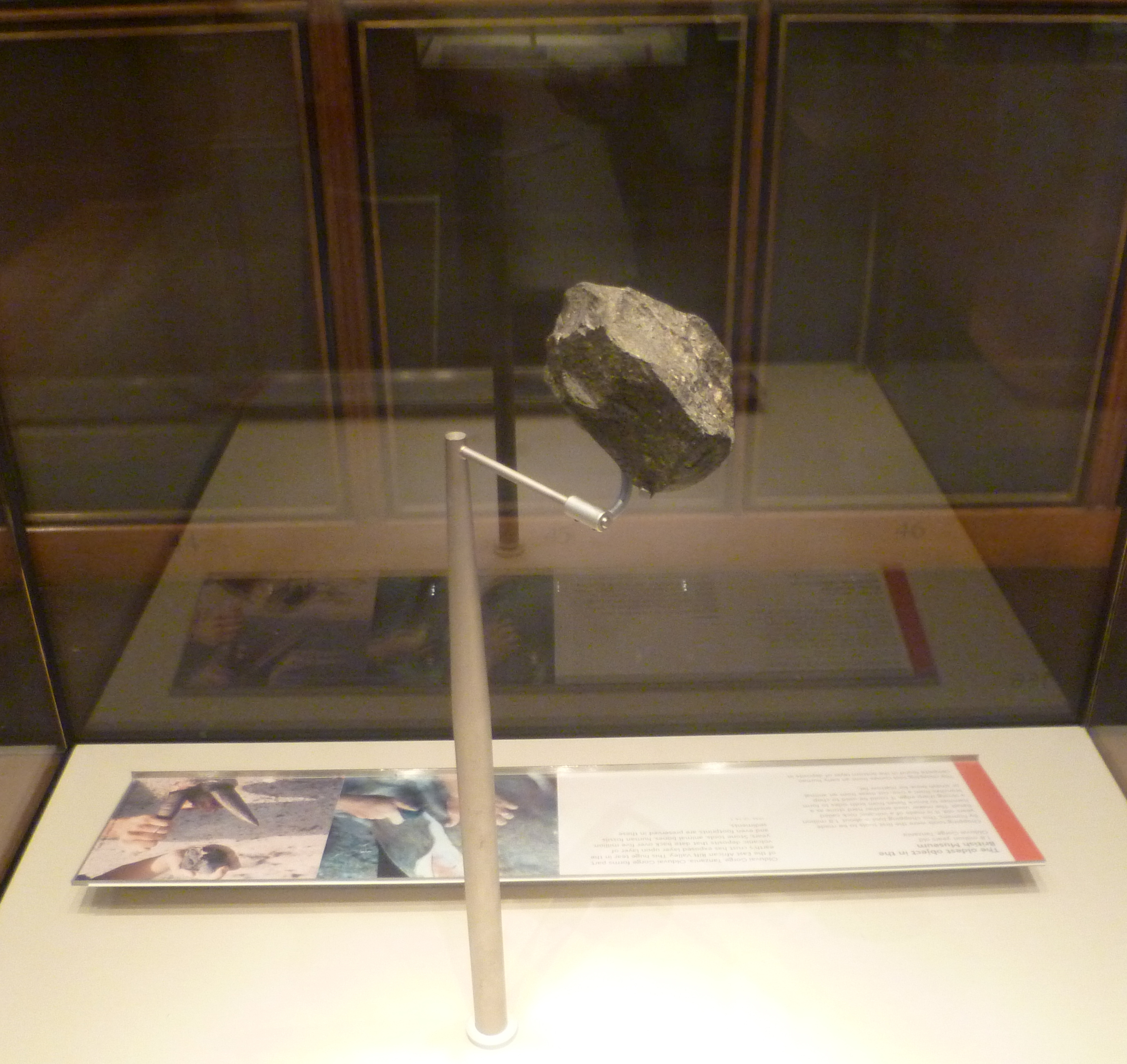 1.8 million years old human made object displayed at the British Museum.